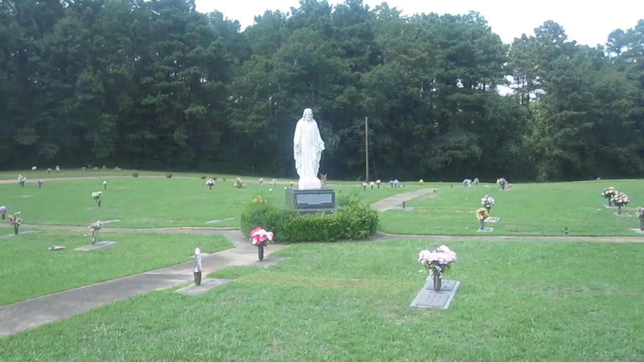 arden_of_Memories_in_Jonesboro,_LA